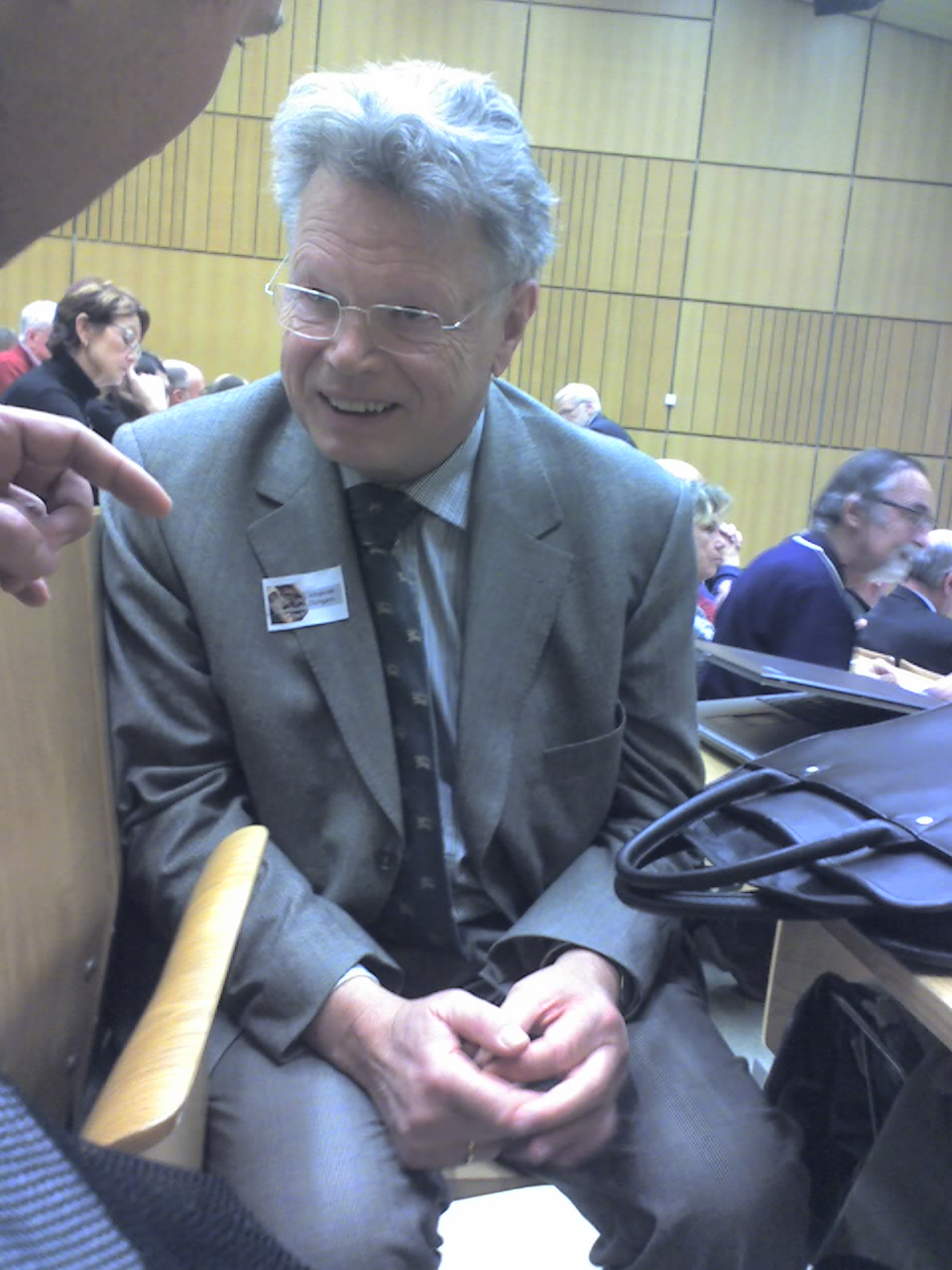 Johannes Dichgans, leading German neuro-scientist and neurologist